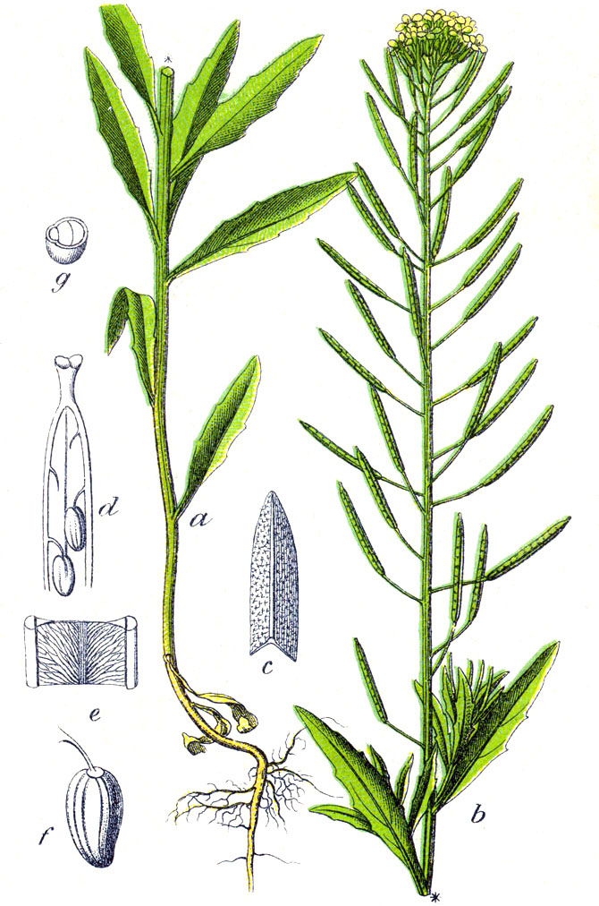 Erysimum cheiranthoides subsp. cheiranthoides, syn. Crucifera erysimum E.H.L.Krause Original Caption Schotendotter, Crucifera erysimum